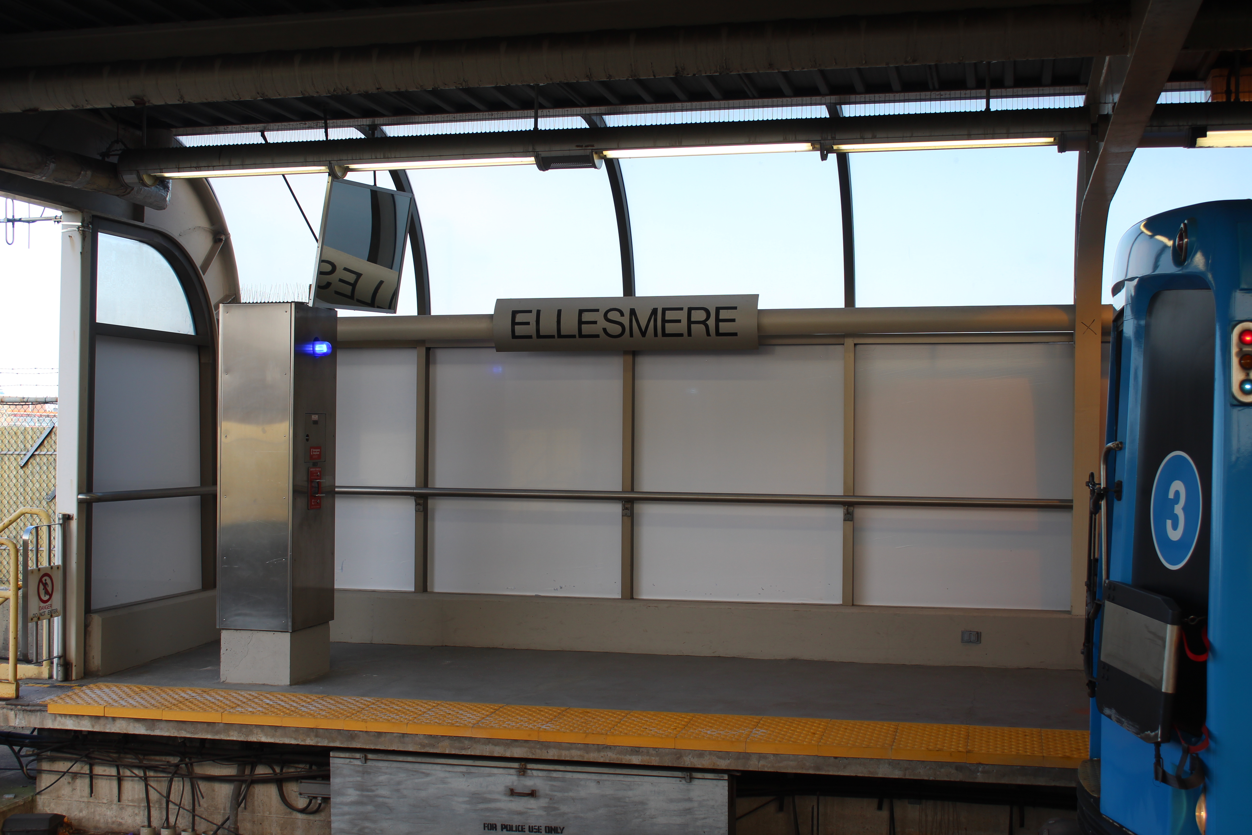 Ellesmere station with a train on the right.